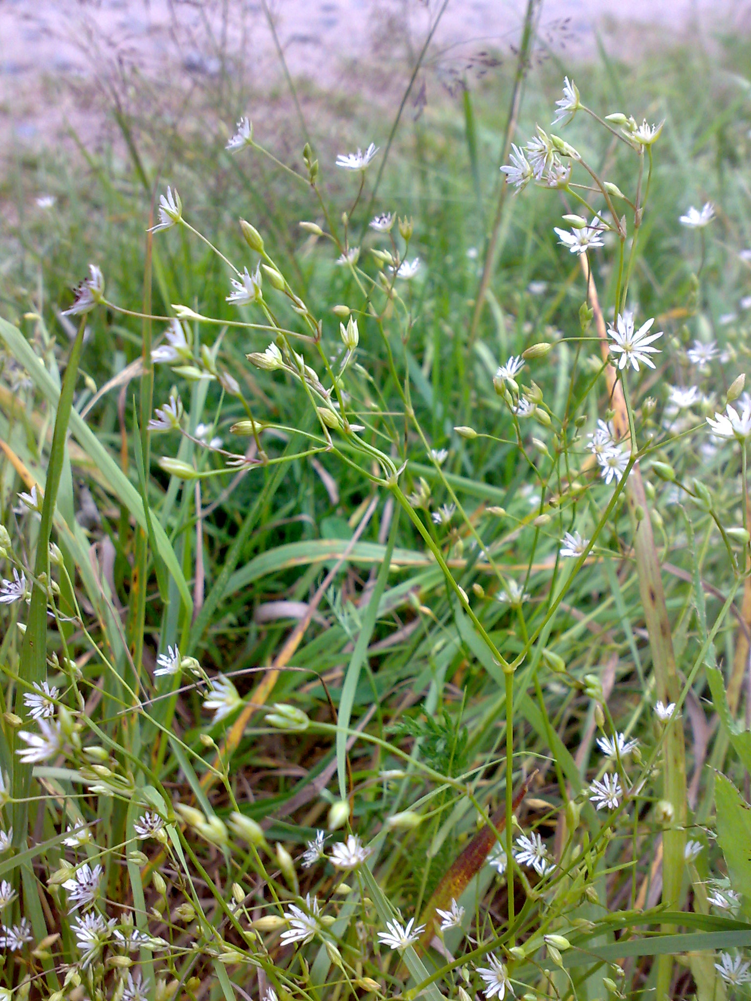 Stellaria graminea Norway (Hurum)